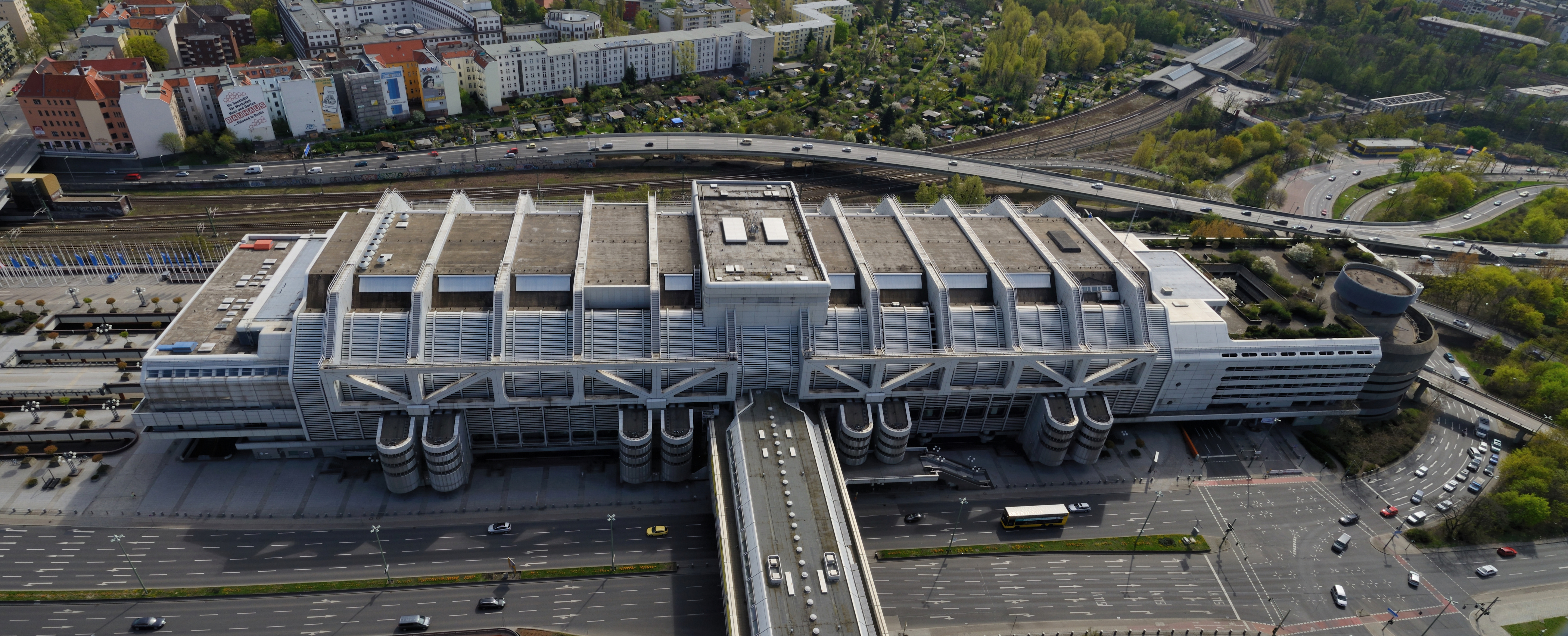 Berlin: ICC